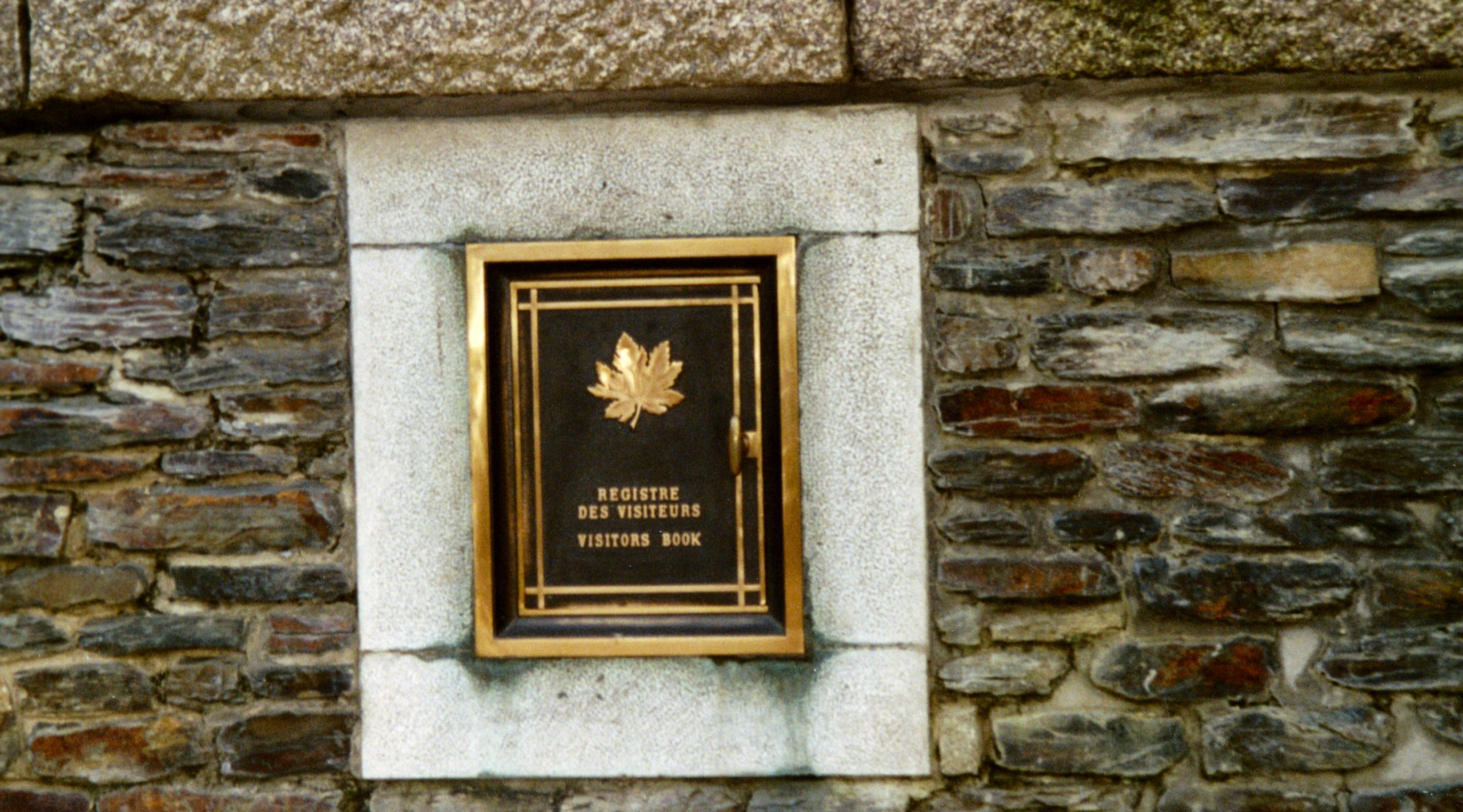 The Canadian Memorial at Hill 62, outside Ypres, Belgium.